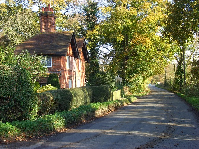 Cypher Cottages, Binfield Heath This is a pair of cottages on the Emmer Green to Binfield Heath road. The bricks might well have been produced very locally in Comp Wood.